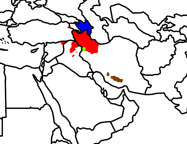 A map showing the location of Azerbaijani and related languages: blue - North Azerbaijani, red - South Azerbaijani, , brown - Qashqa'i